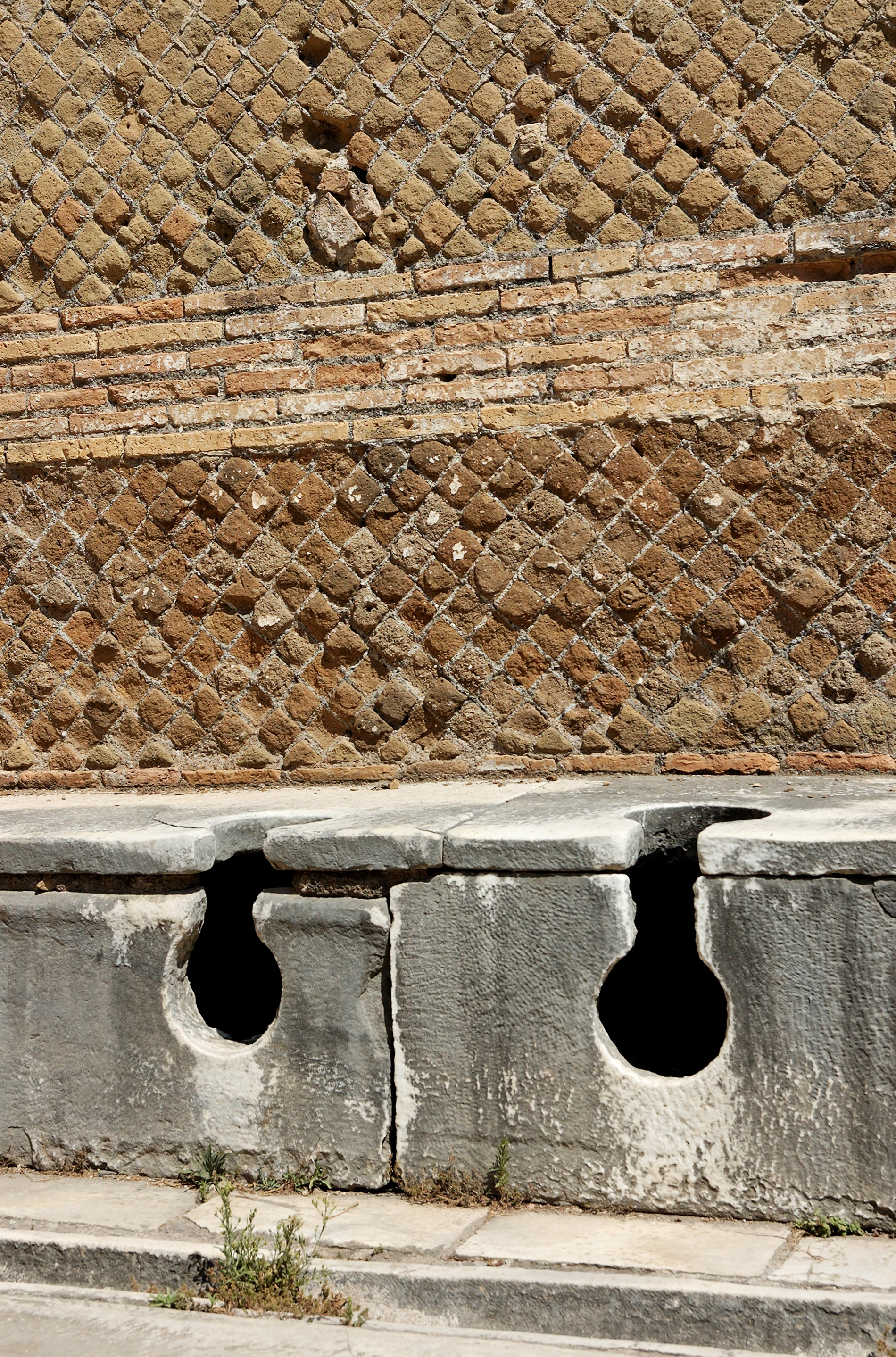 Ancient Roman latrinae. Caseggiato dei Triclini (House of the dining-couches) seen from the north. Ostia Antica, Latium, Italy.